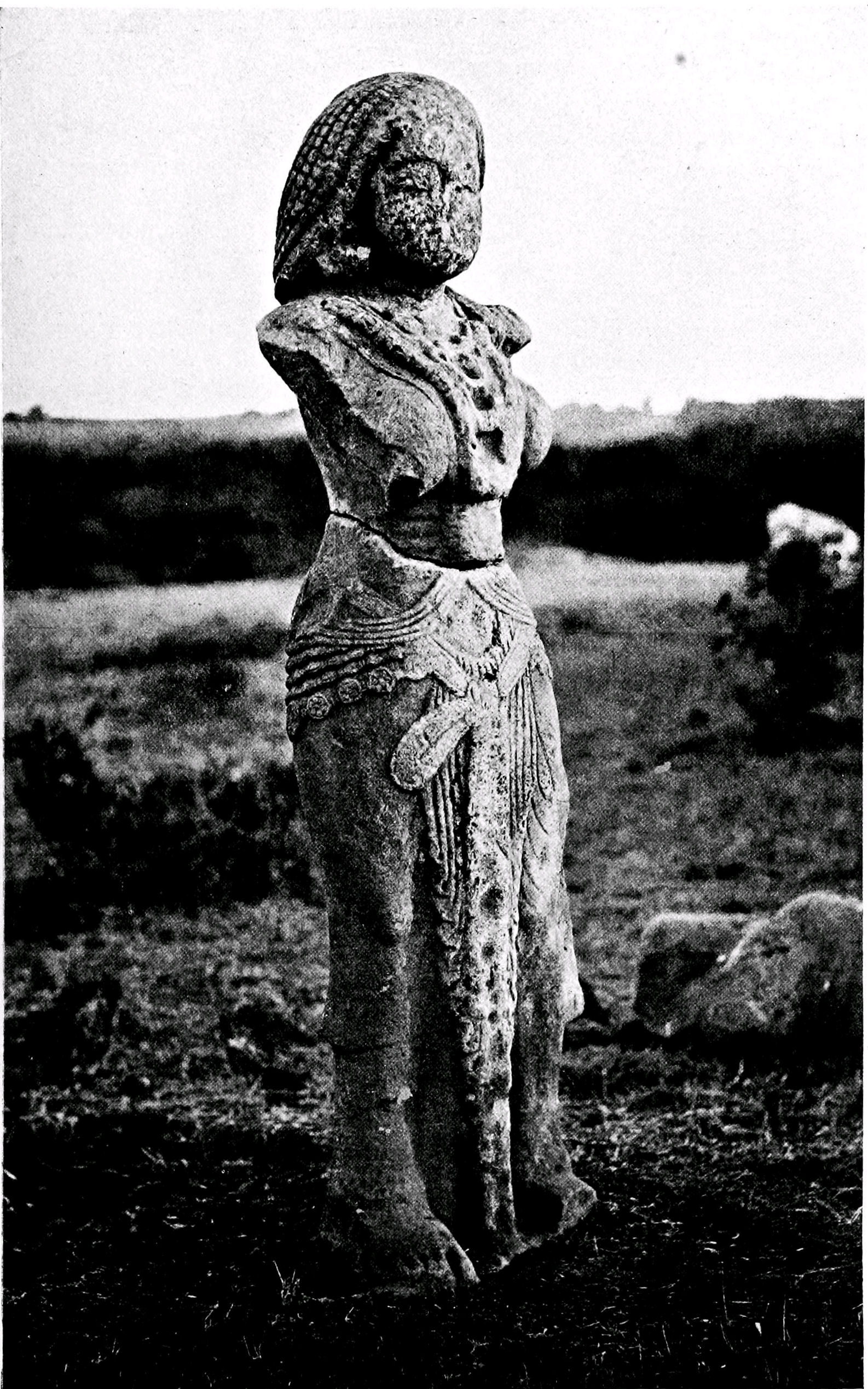 Besnagar Yakshini. Another image.